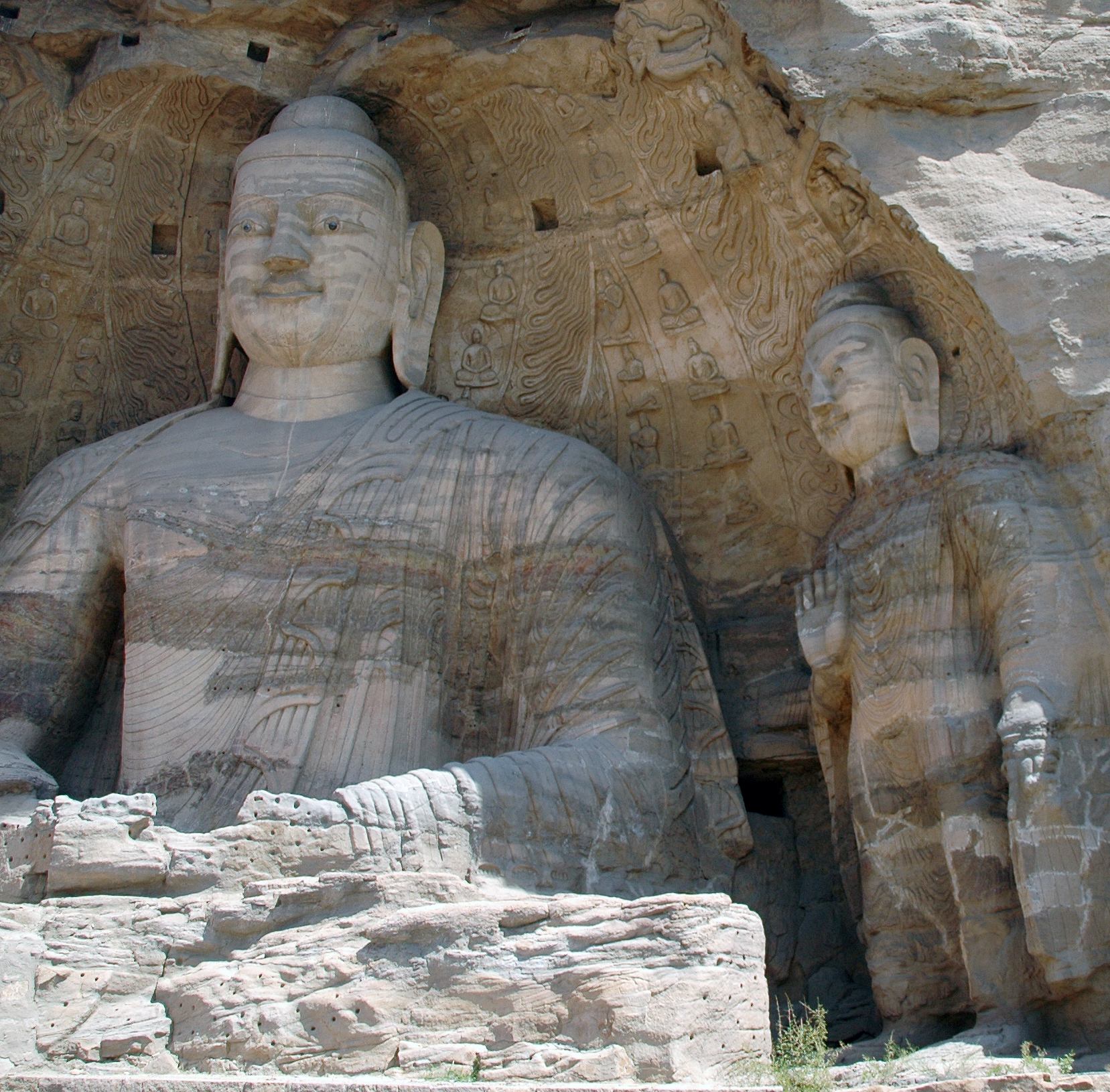 The great Sakyamuni (16 mt) at the Yungang Grottes (Datong, Shanxi, China, with the smaller Buddha of Medicine